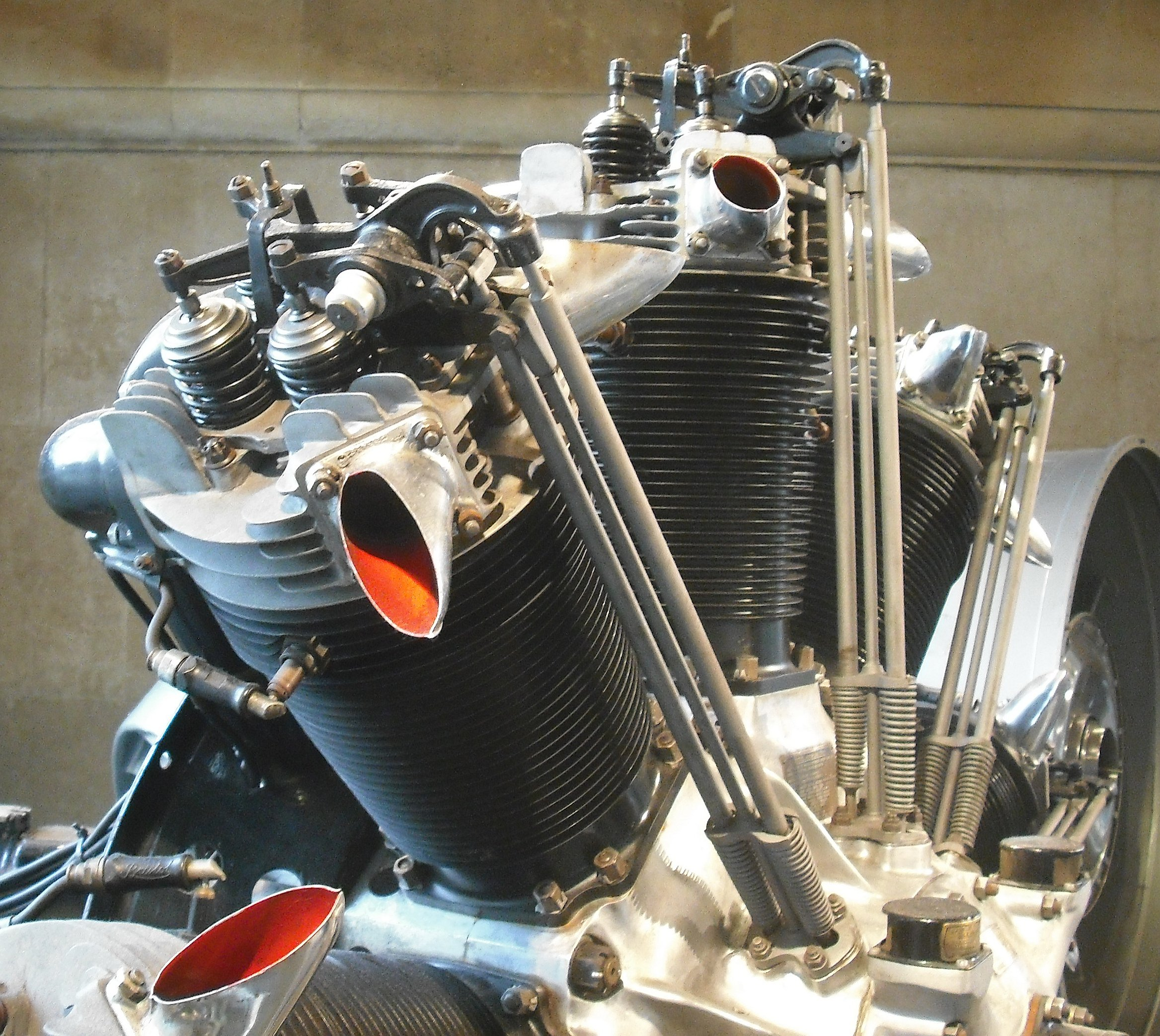 Upper cylinders of a Bristol Jupiter VI radial aircraft engine.